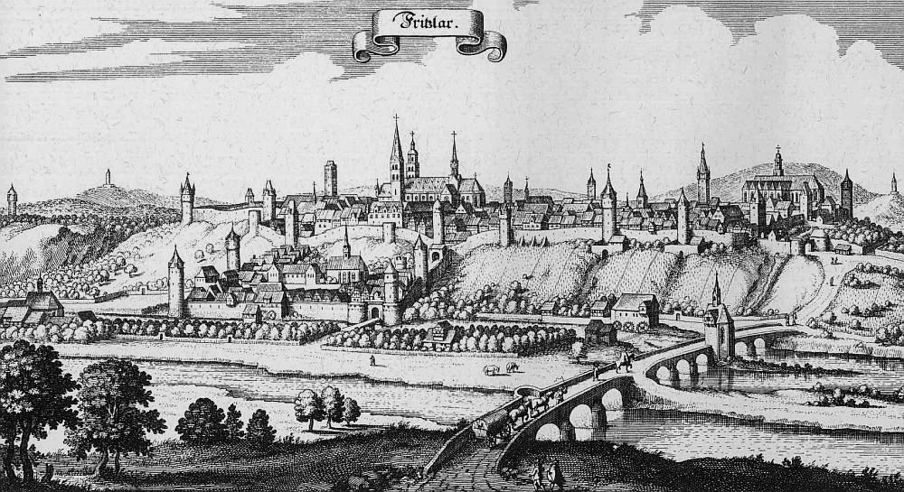 This is a scan of the historical document: Title: Fritzlar - Topographia Hassiae language: german